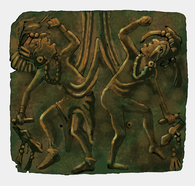 A illustration of the Mississippian culture Upper Bluff Lake Dancing Figures (also known as the Dancing Birdmen[1]) repoussé copper plate found at the Saddle Site in Union County, Illinois.[2]